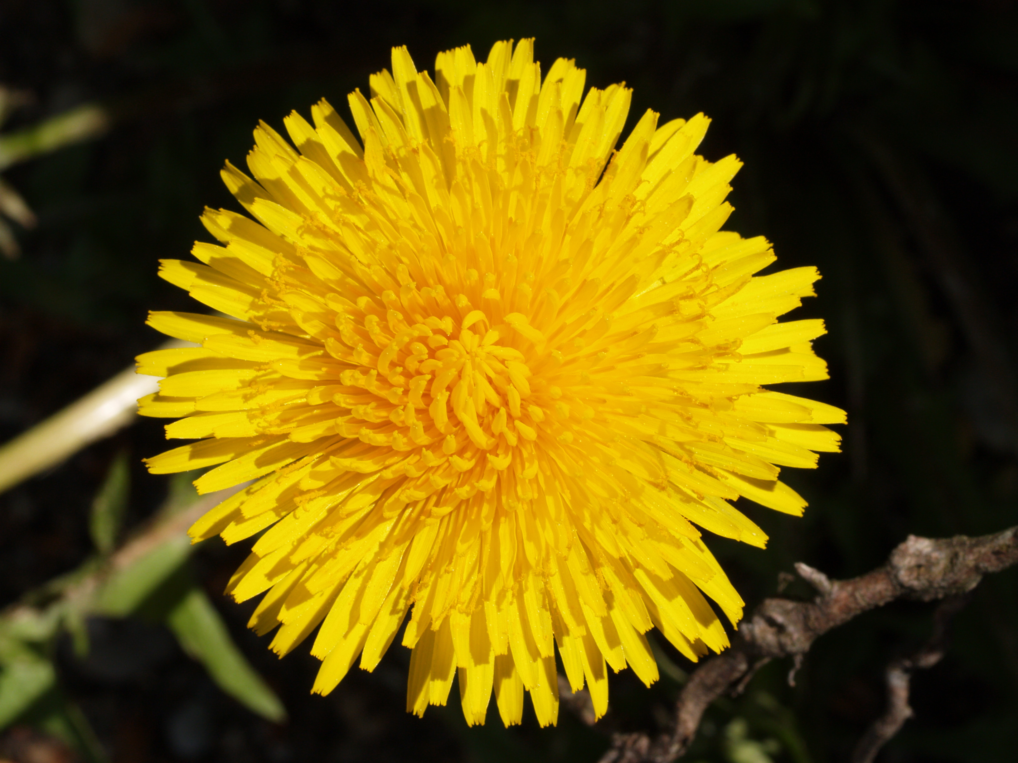 Taraxacum, the flower